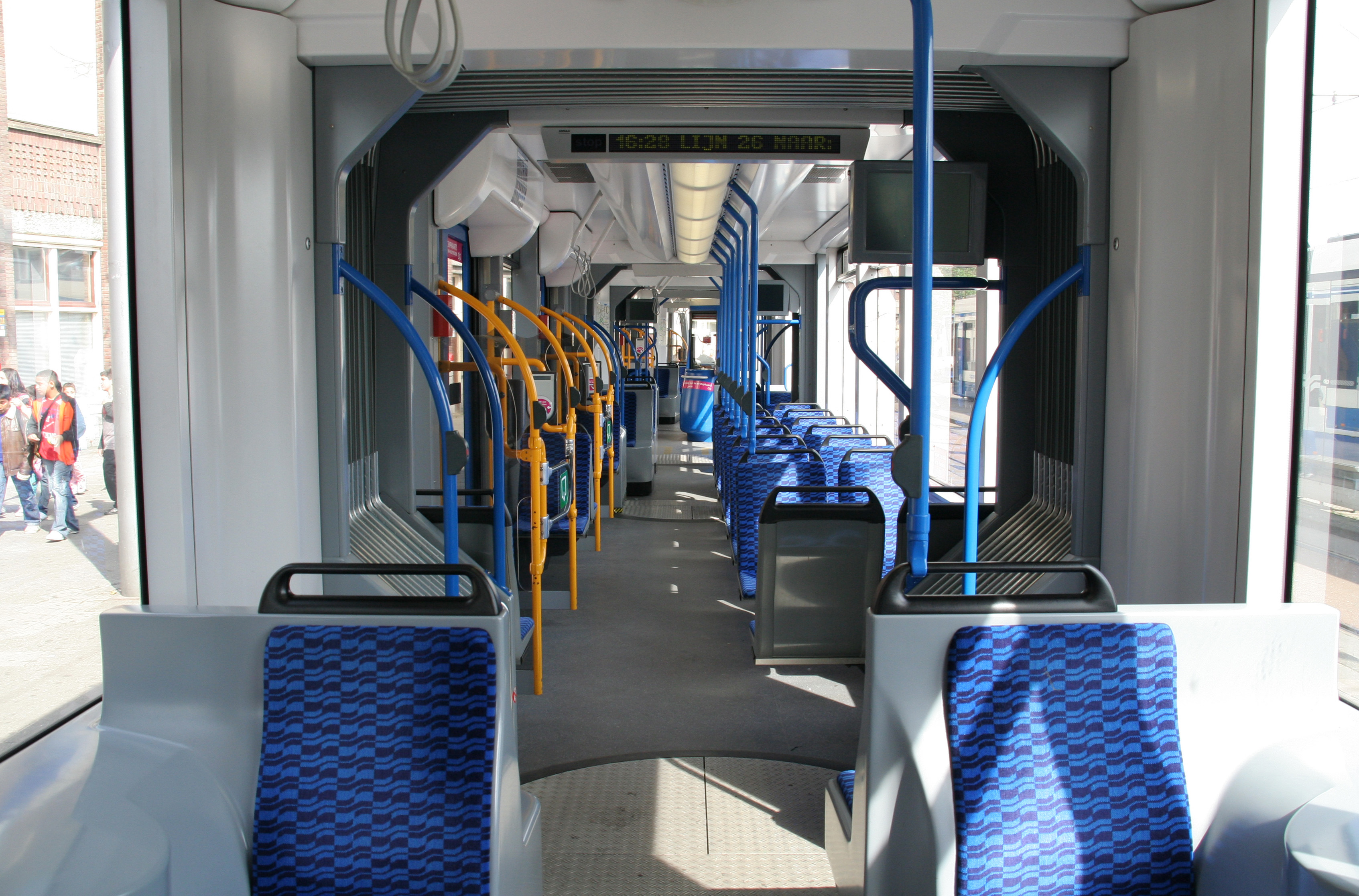 Interior of Siemens Combino tram in Amsterdam